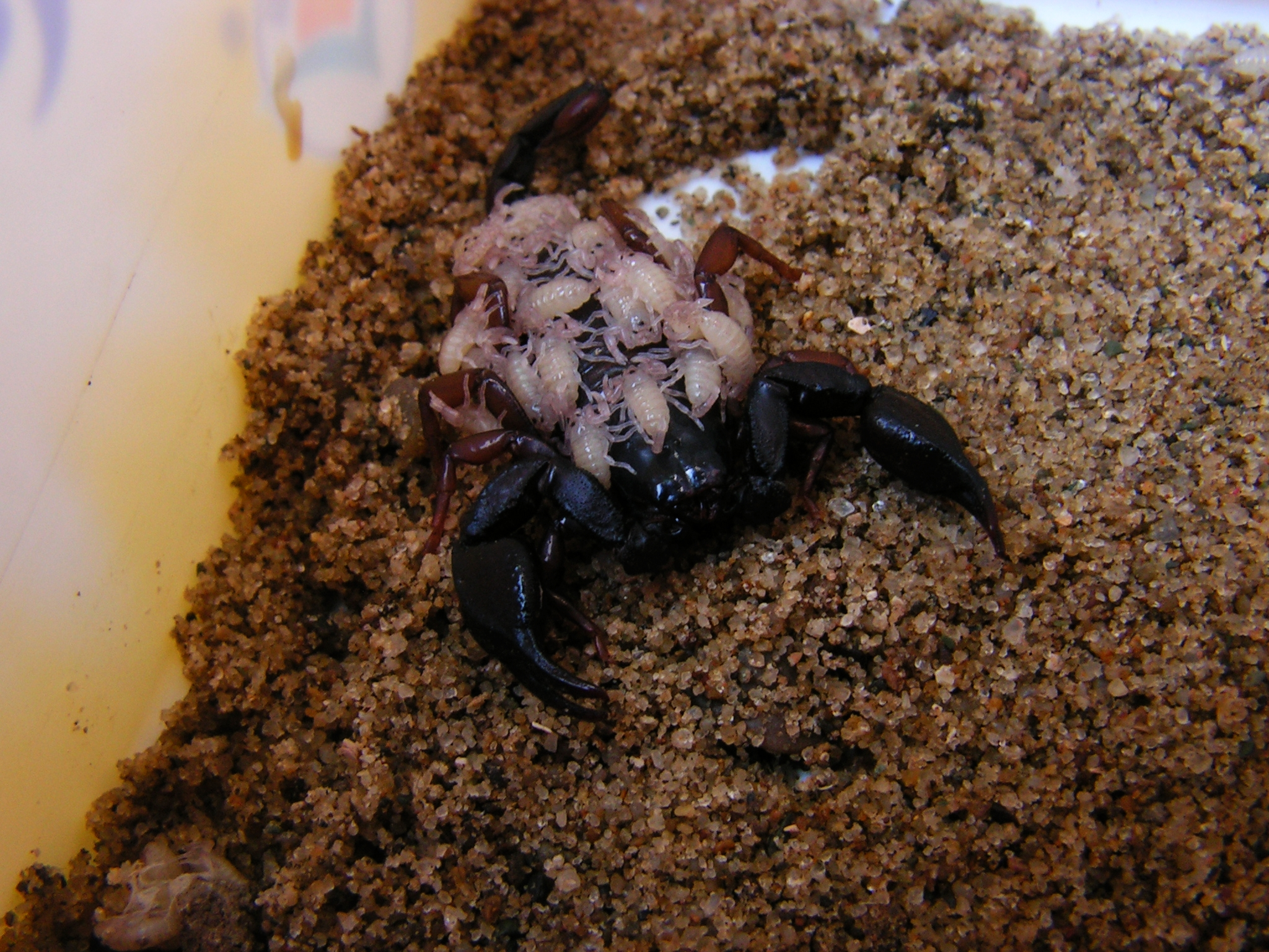 Endemic female Euscorpius charpaticus with 10 days old juveniles on her back. The juveniles remain on the mother's back for 18 to 26 days.